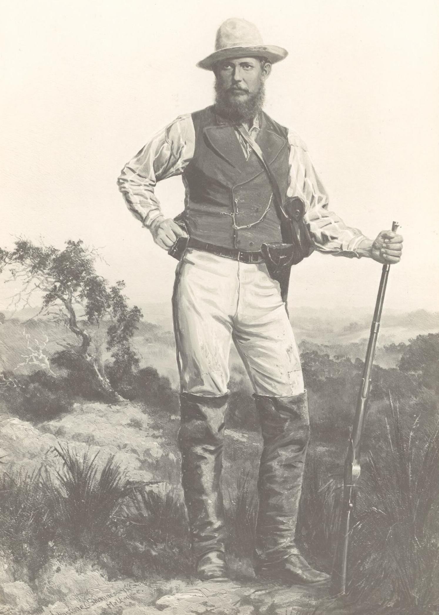 Australian explorer John Forrest